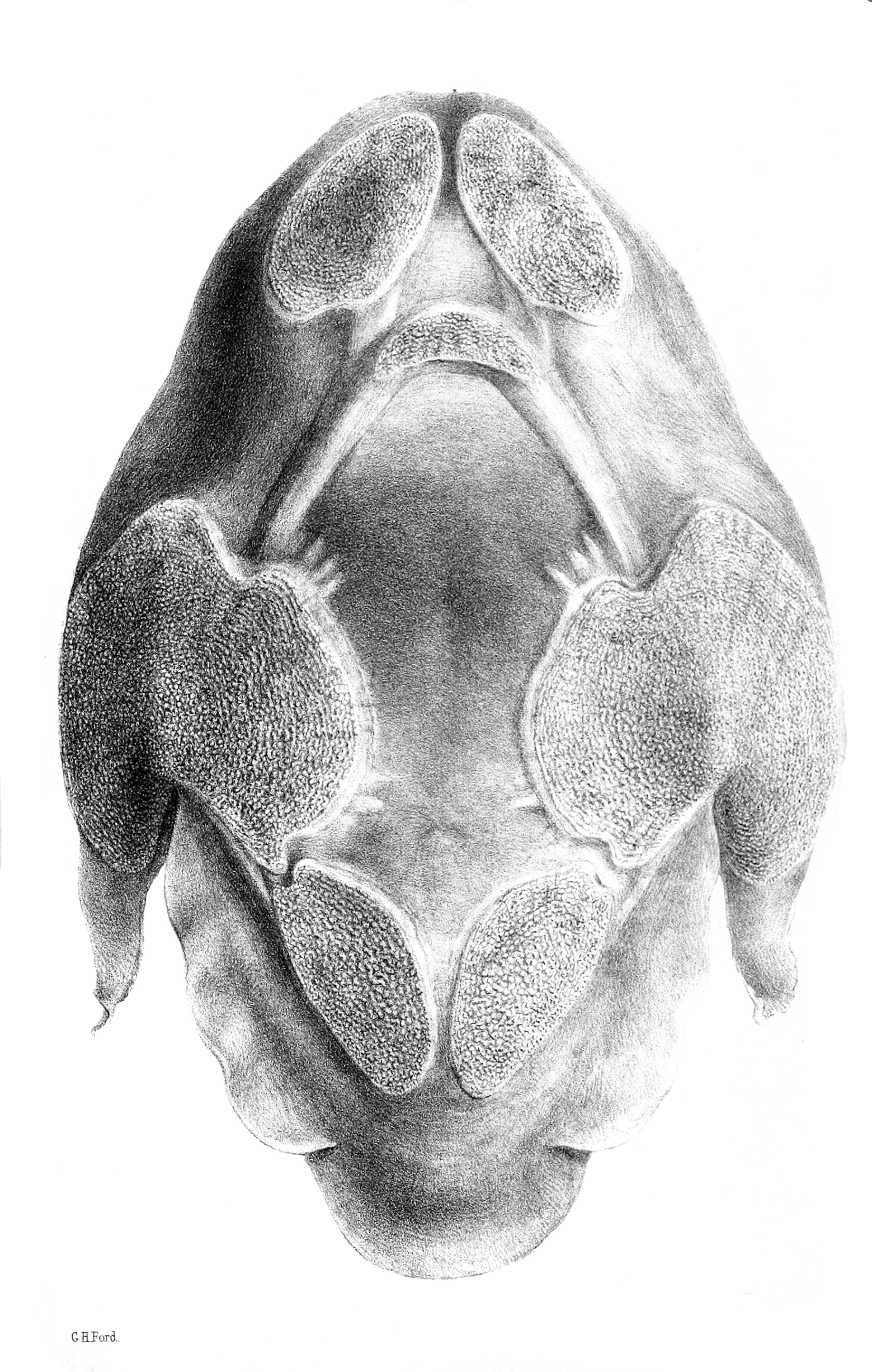 Zambezi Flapshell Turtle, plastron from ventral